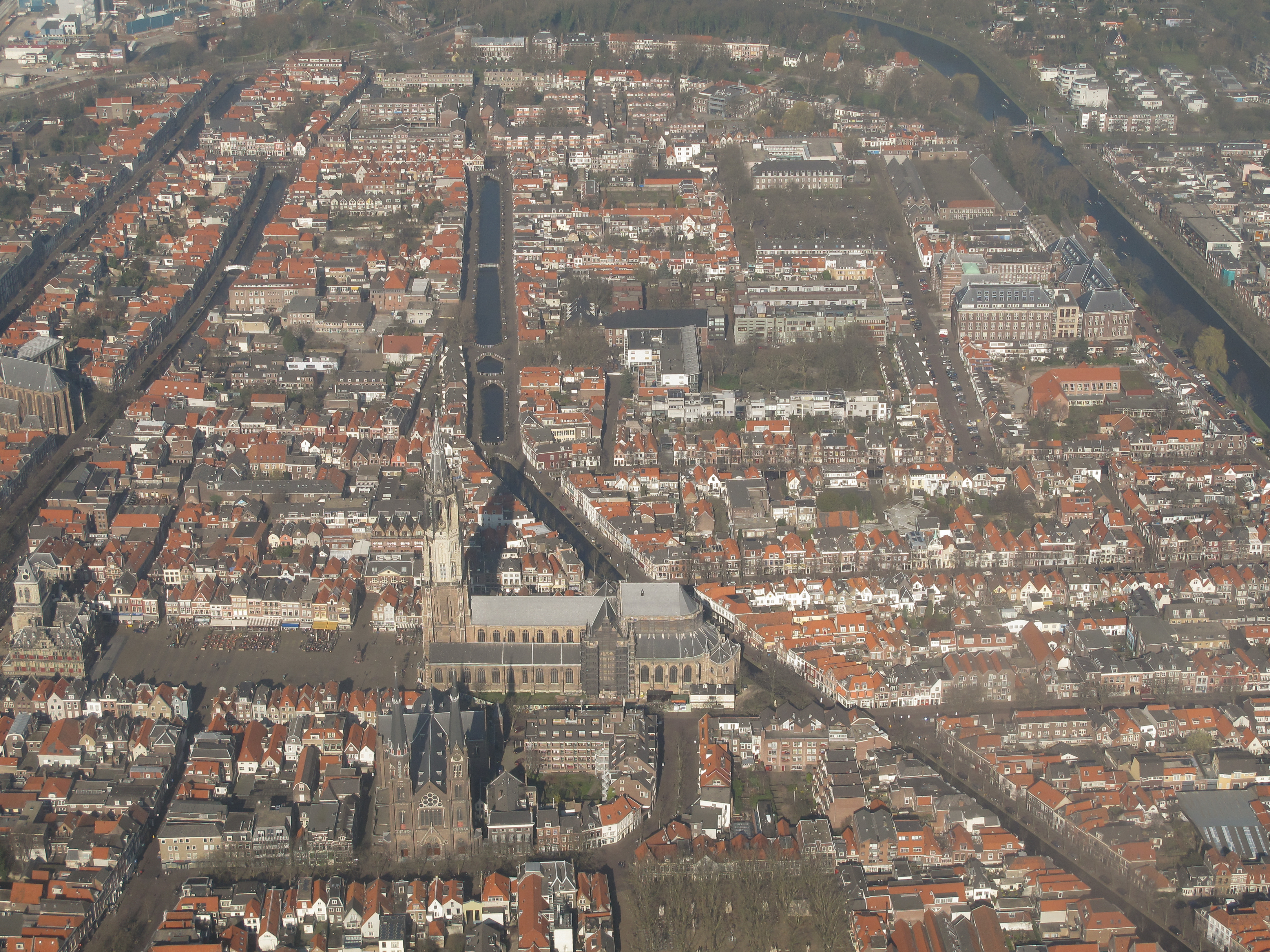 Delft, center from air with church (de Nieuwe Kerk)